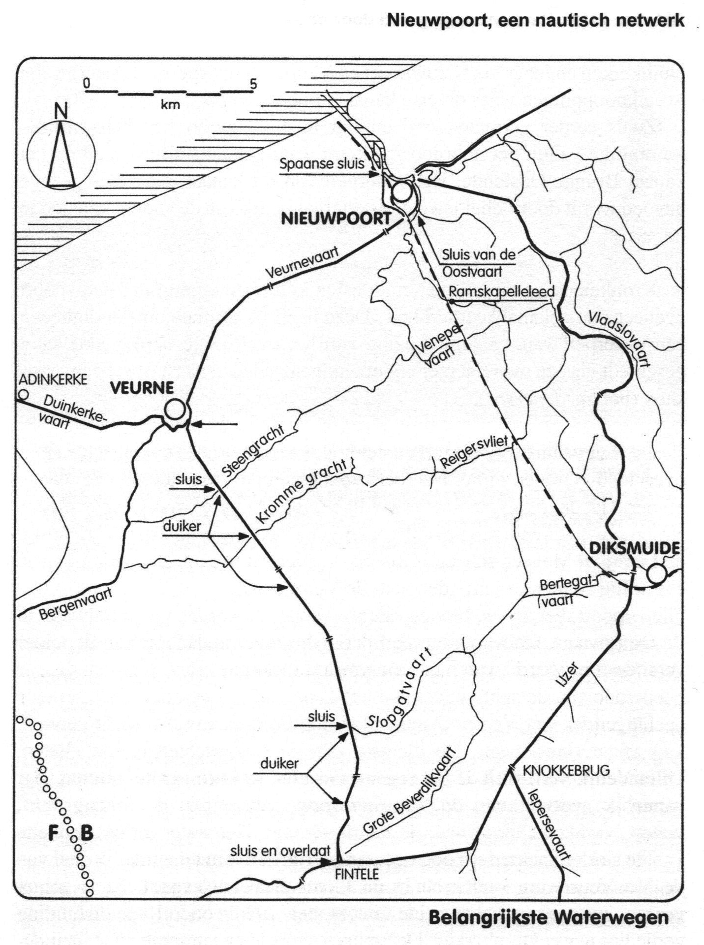 Waterways in the Nieuwpoort-Diksmuide-Veurne area